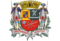 converted to png from a gif file obtained from Commons itself)